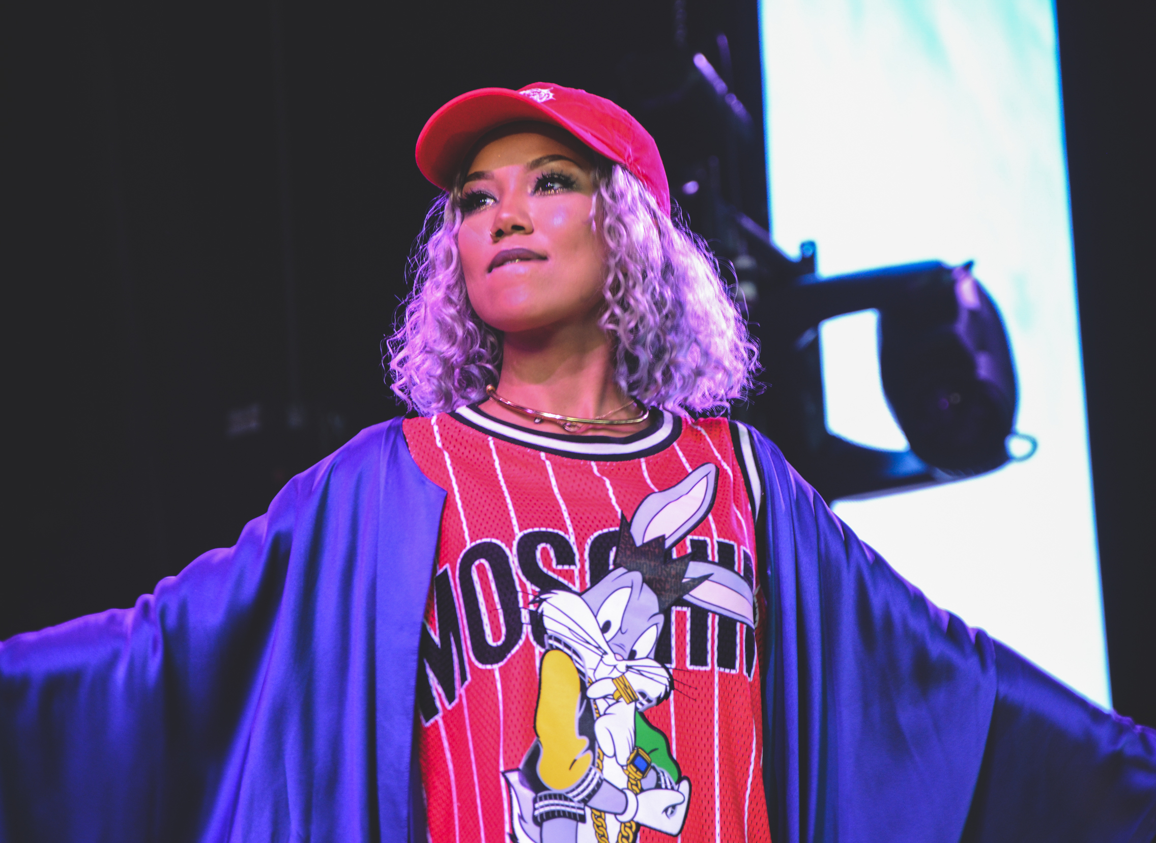 The High Road Summer Tour 2016 at the Molson Canadian Amphitheatre featuring Snoop Dogg, Wiz Khalifa, Jhené Aiko, Casey Veggies and Dj Drama. Photography by Charito Yap